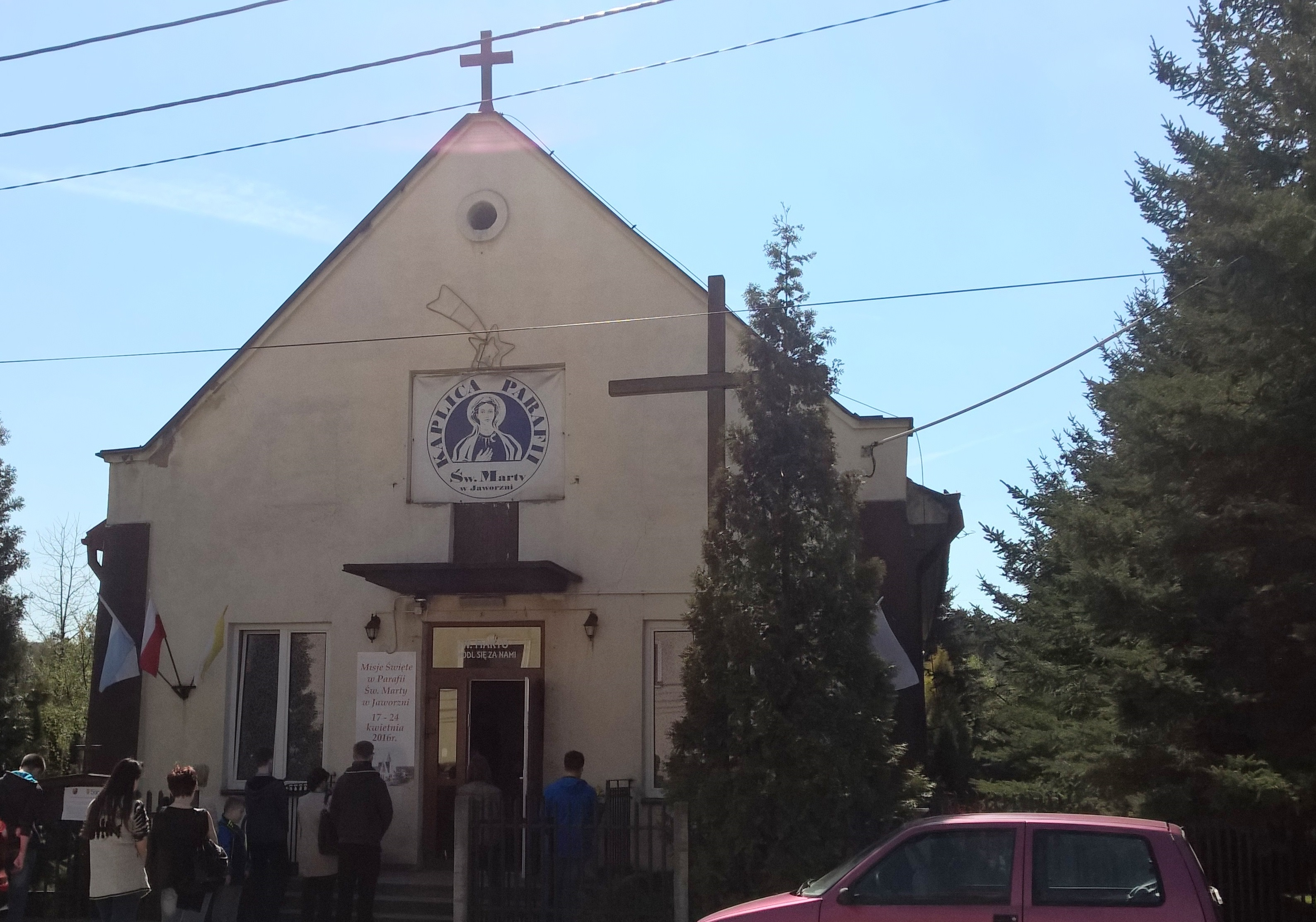 Church in Jaworznia